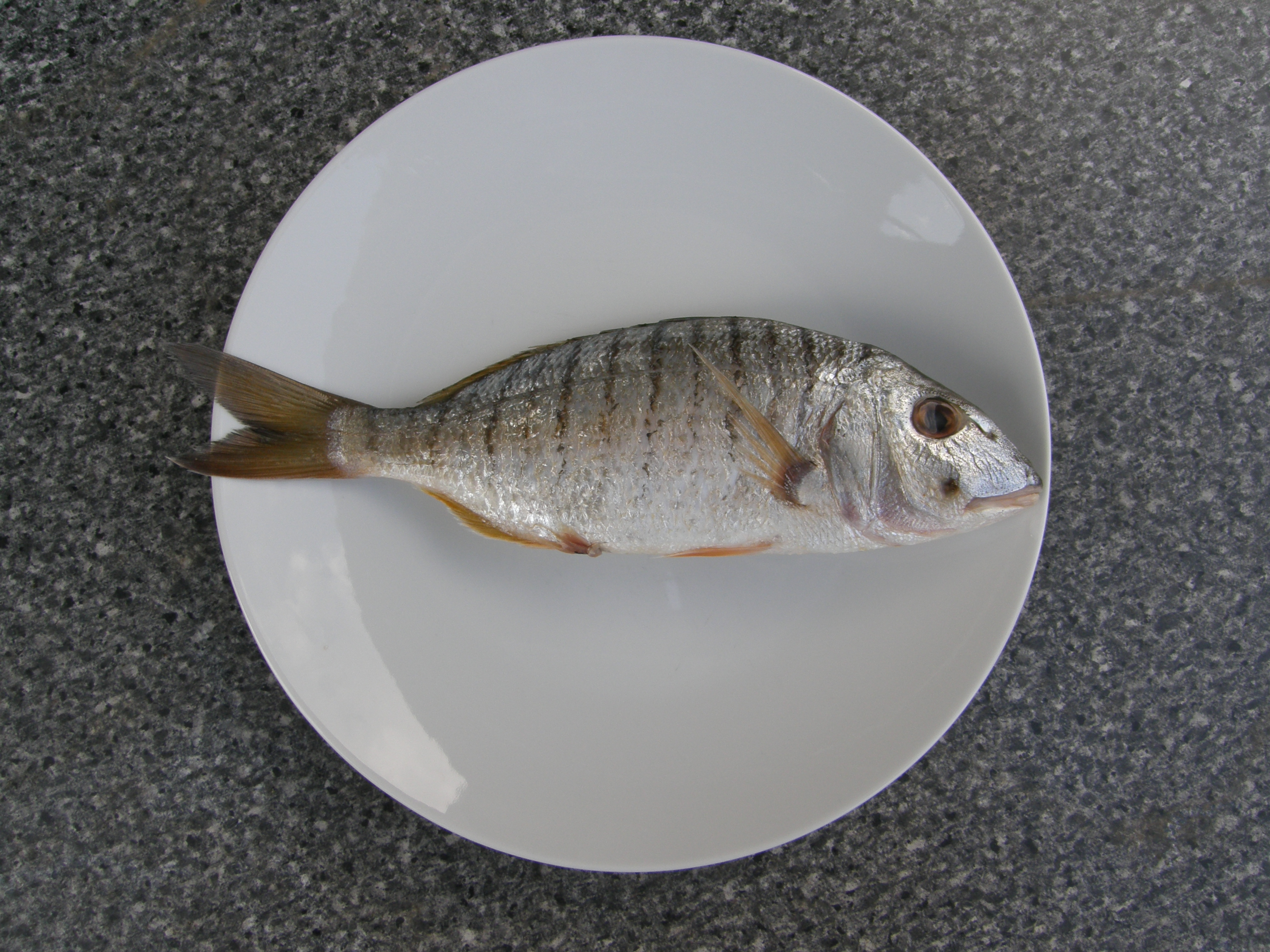 A striped seabream (Lithognathus mormyrus) on a plate in Slovenia.